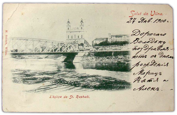 Green bridge in Vilnius before 1900 (post card)